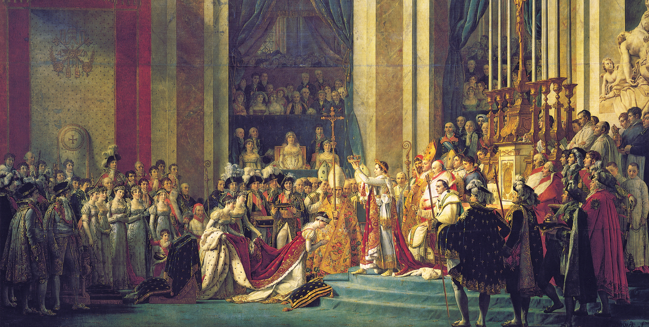 Derived from Jacques-Louis David, The Coronation of Napoleon edit.jpg